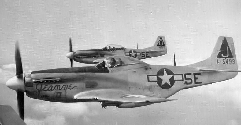 P-51s of the 364th Fighter Group, based at RAF Honington, England.